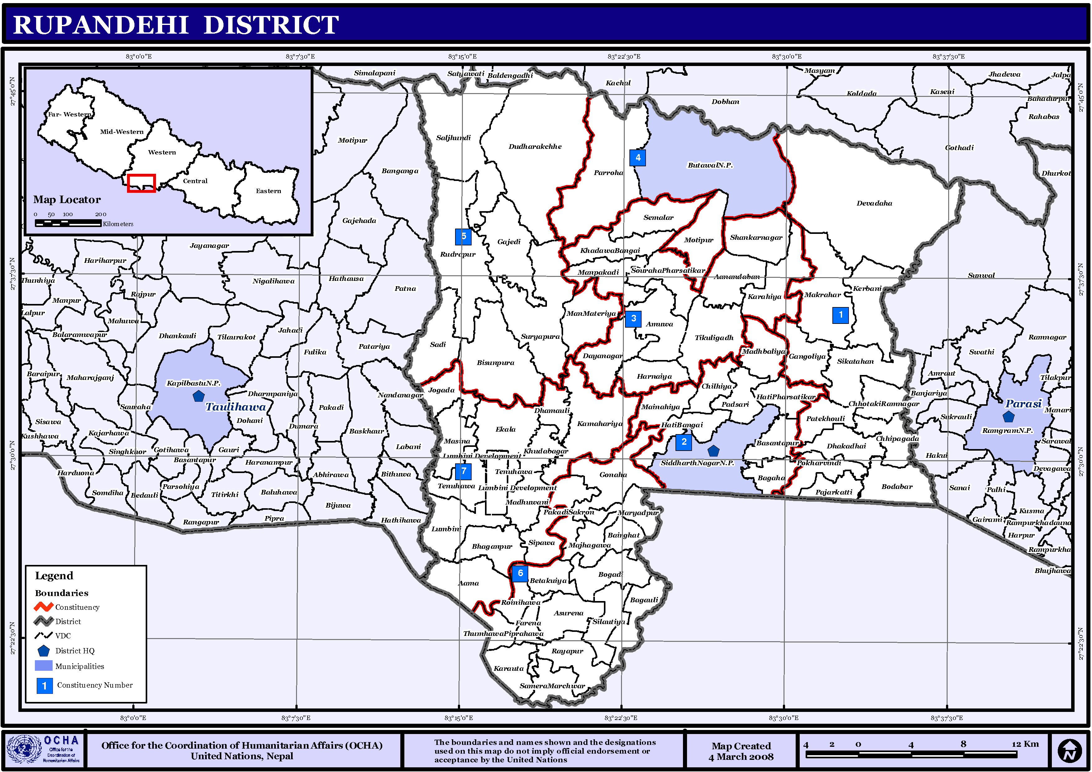 Map displaying Village Development Committees in Rupandehi District, Nepal